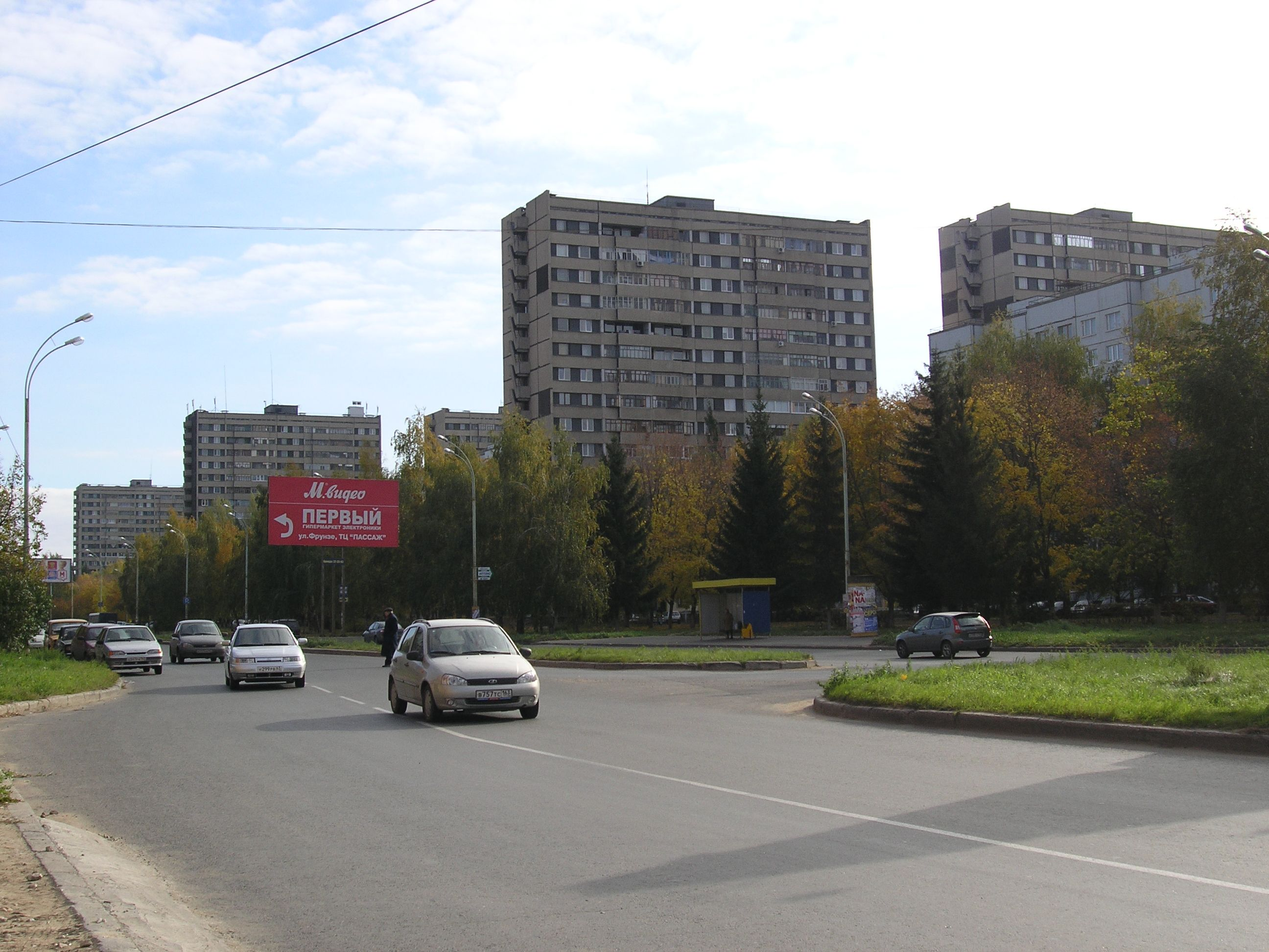 Frunze street, Togliatti, Russia